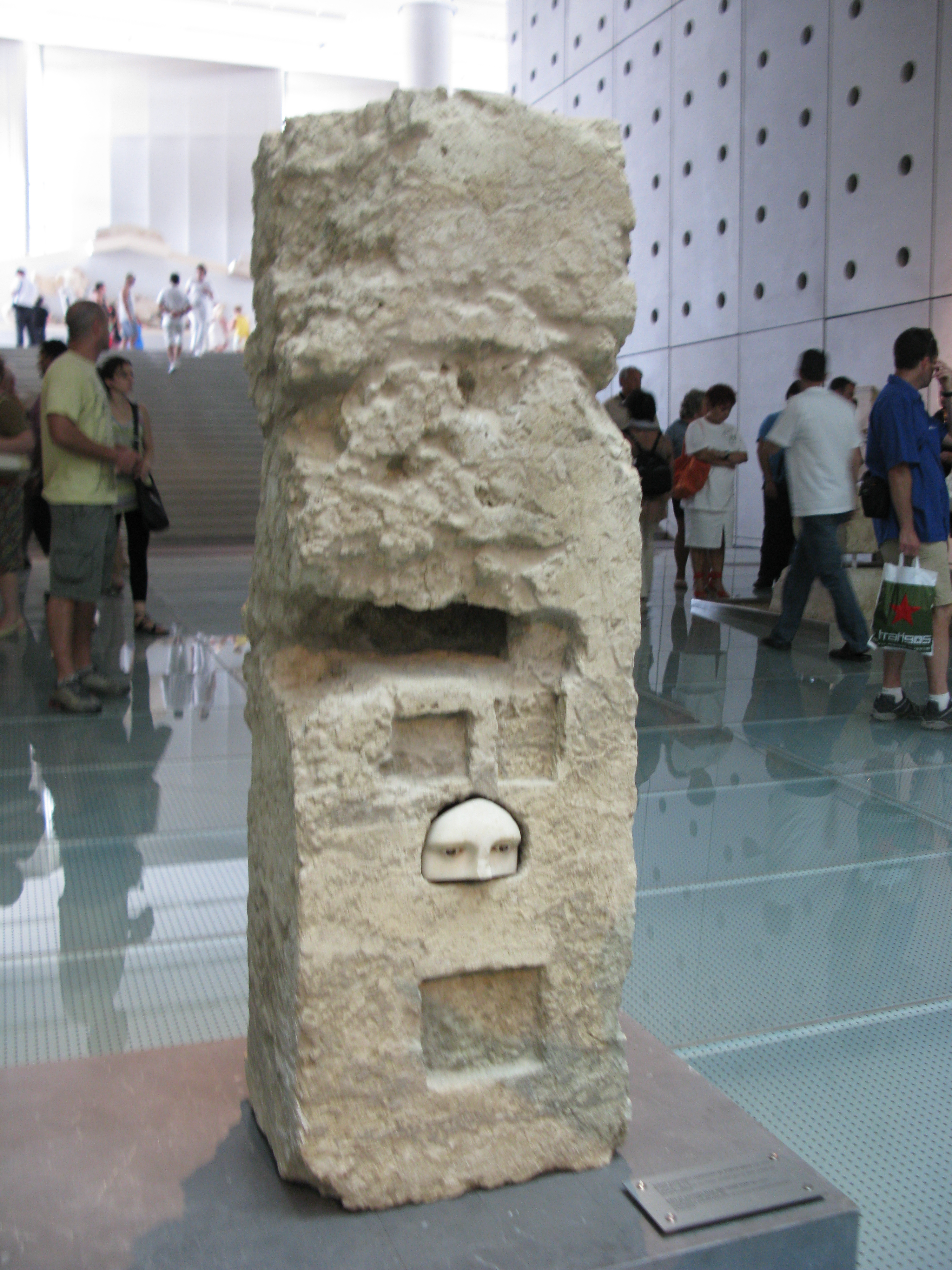 Part of a female face with inlaid eyes. Second half of the 4th cent. BC Votive offering, probably by Praxias, set in a niche of a pillar in the sanctuary of Asclepios in Athens.